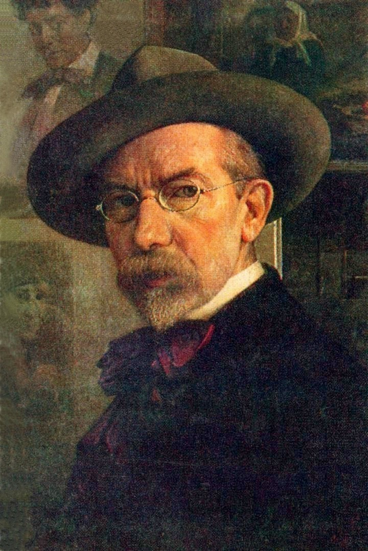 Yehuda Pen (1854—1937). Self-portrait